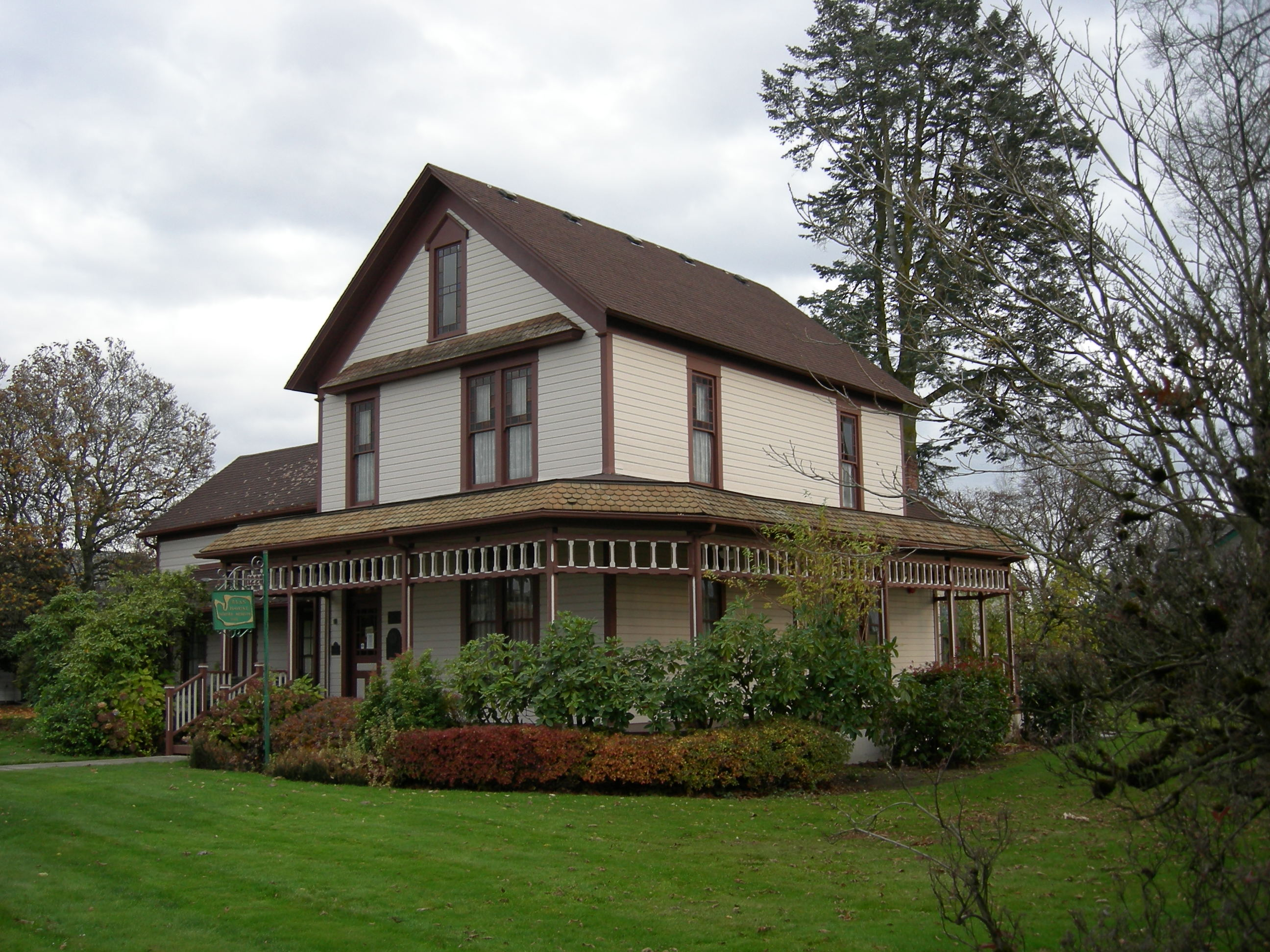 Ryan House, 1228 Main Street, Sumner, Washington, USA. Home to the Sumner Historical Society and its museum; the grounds are a city park. The building has also served as a public library. The house is on the National Register of Historic Places, ID #76001900.